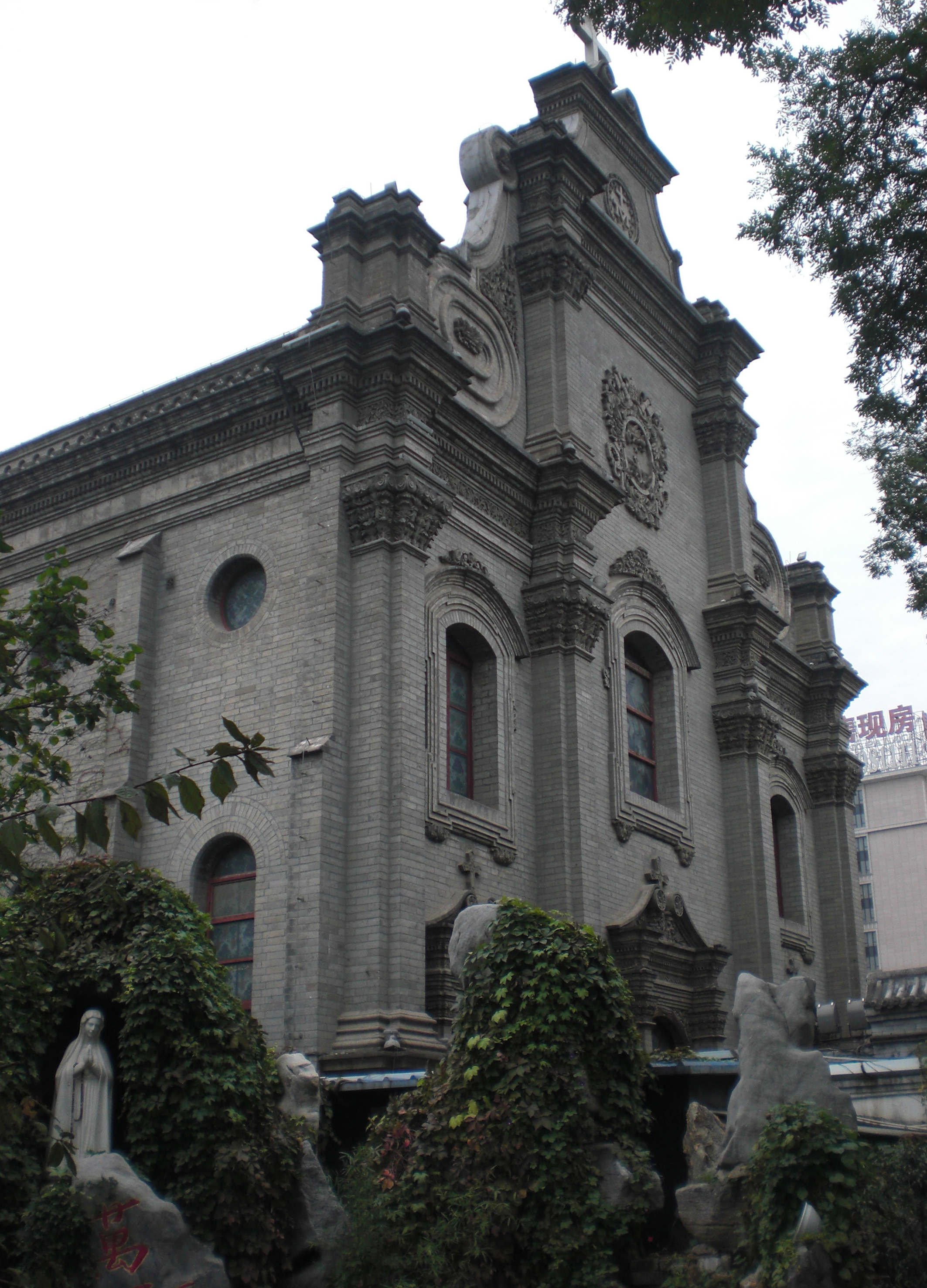 Cathedral of the Immaculate Conception in Beijing